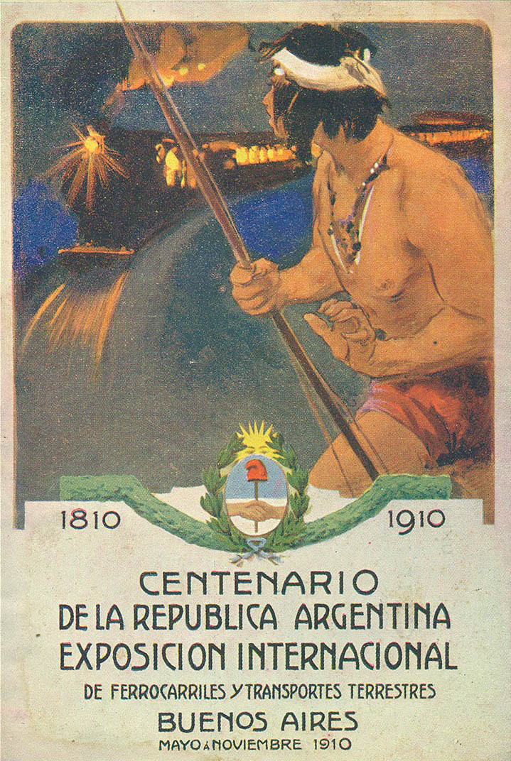 Postcard for the "Exposición Internacional del Centenario" held in Buenos Aires, Argentina.